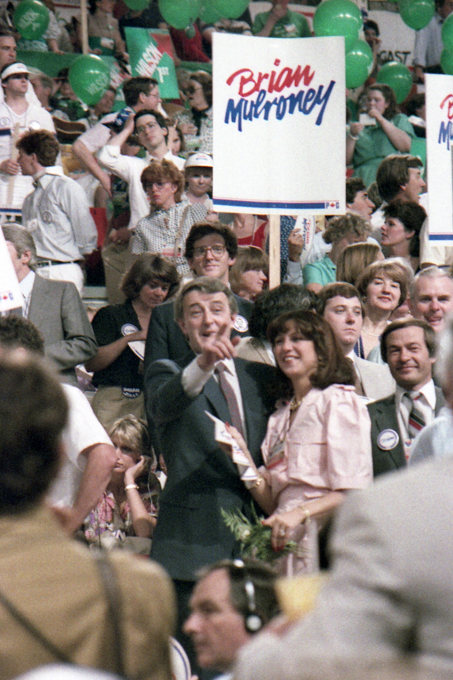 Brian Mulroney on the floor of the Progressive Conservative leadership convention, 11 June 1983. Photo by Alasdair Roberts.